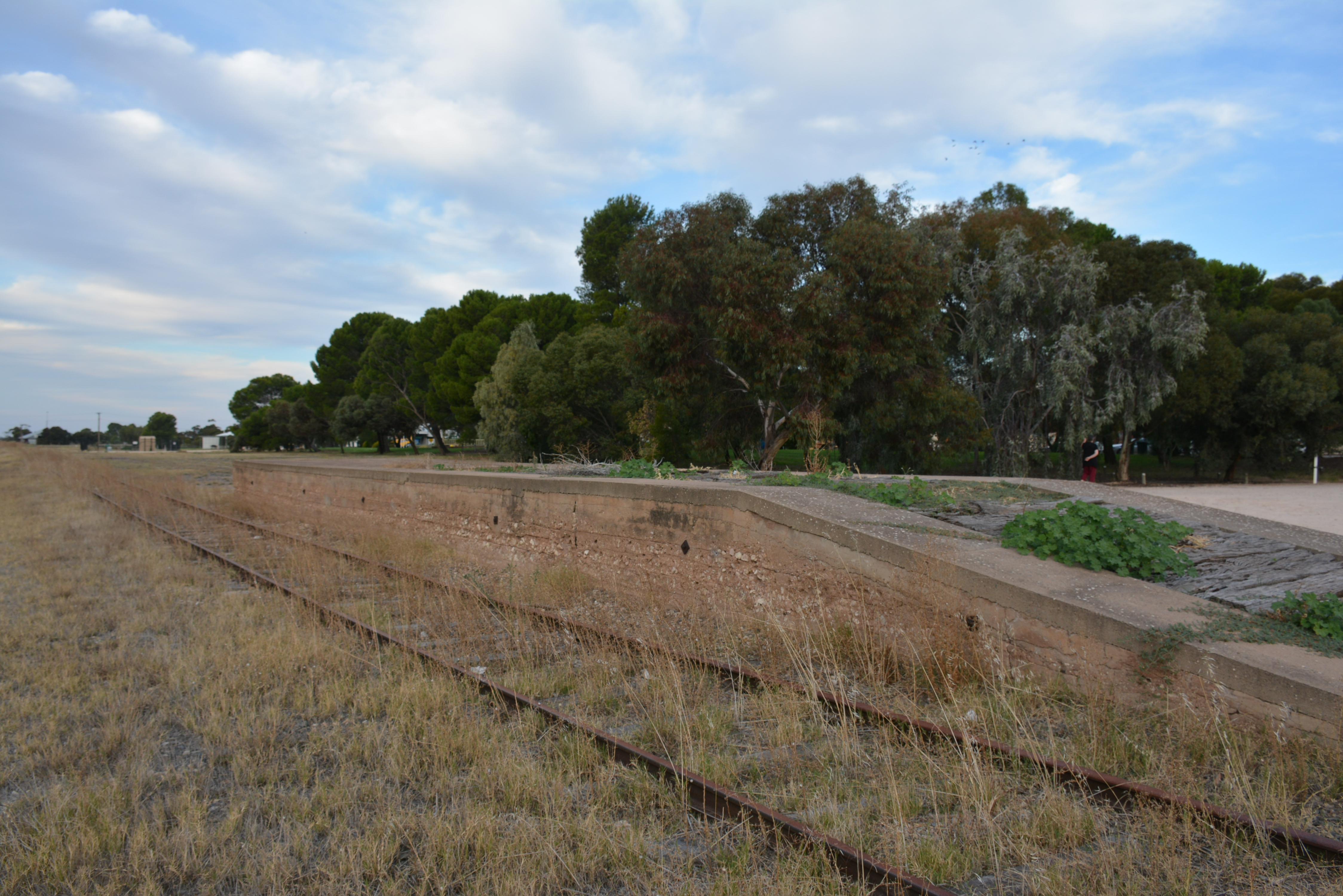 View of the platform and tracks at Pinnaroo railway station, looking towards the east.